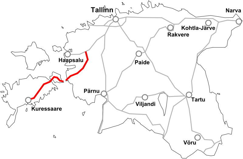 Map of Estonian national road 10, white background. Bigger cities marked.